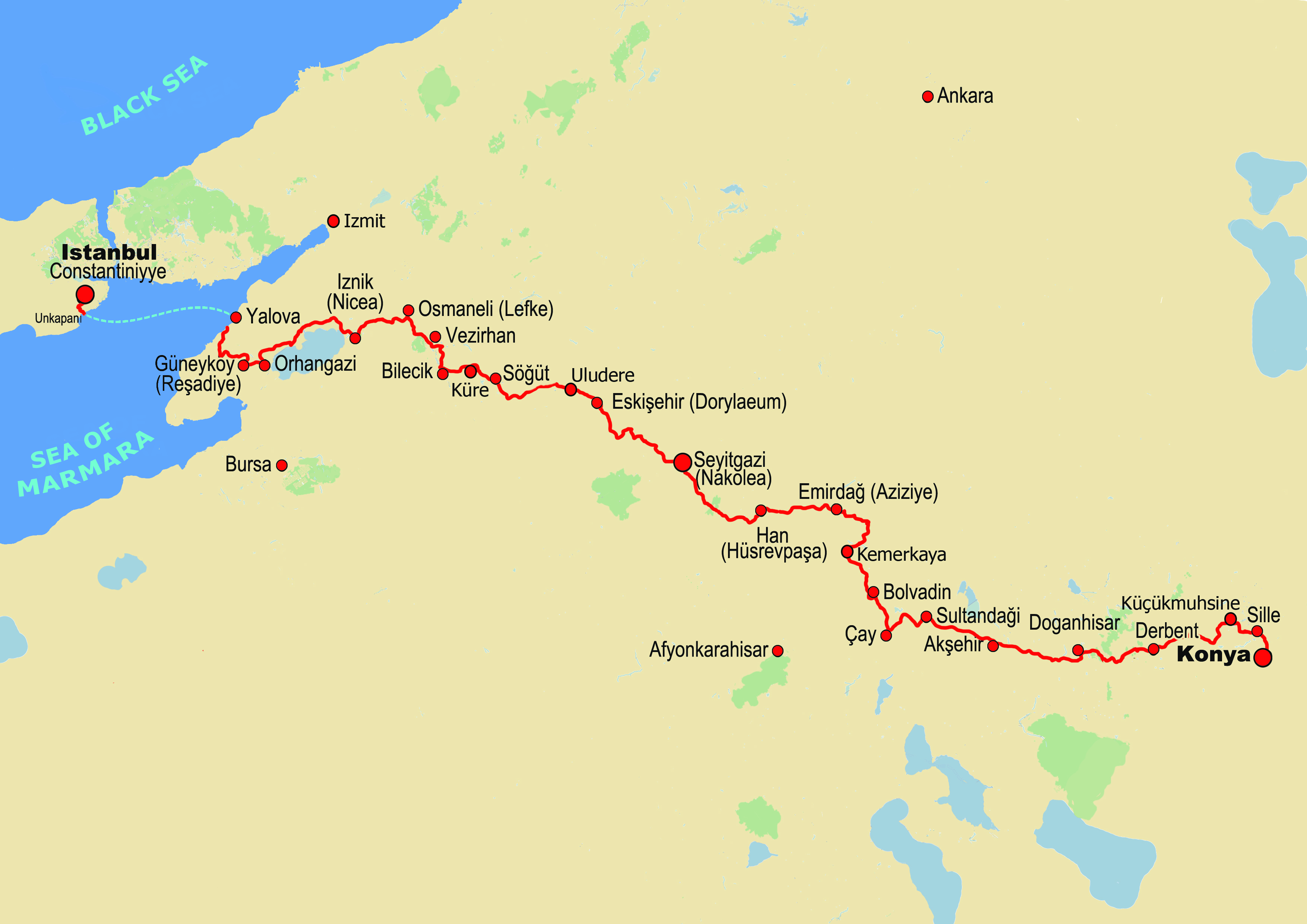 Overview of the route of the Sufi Trial